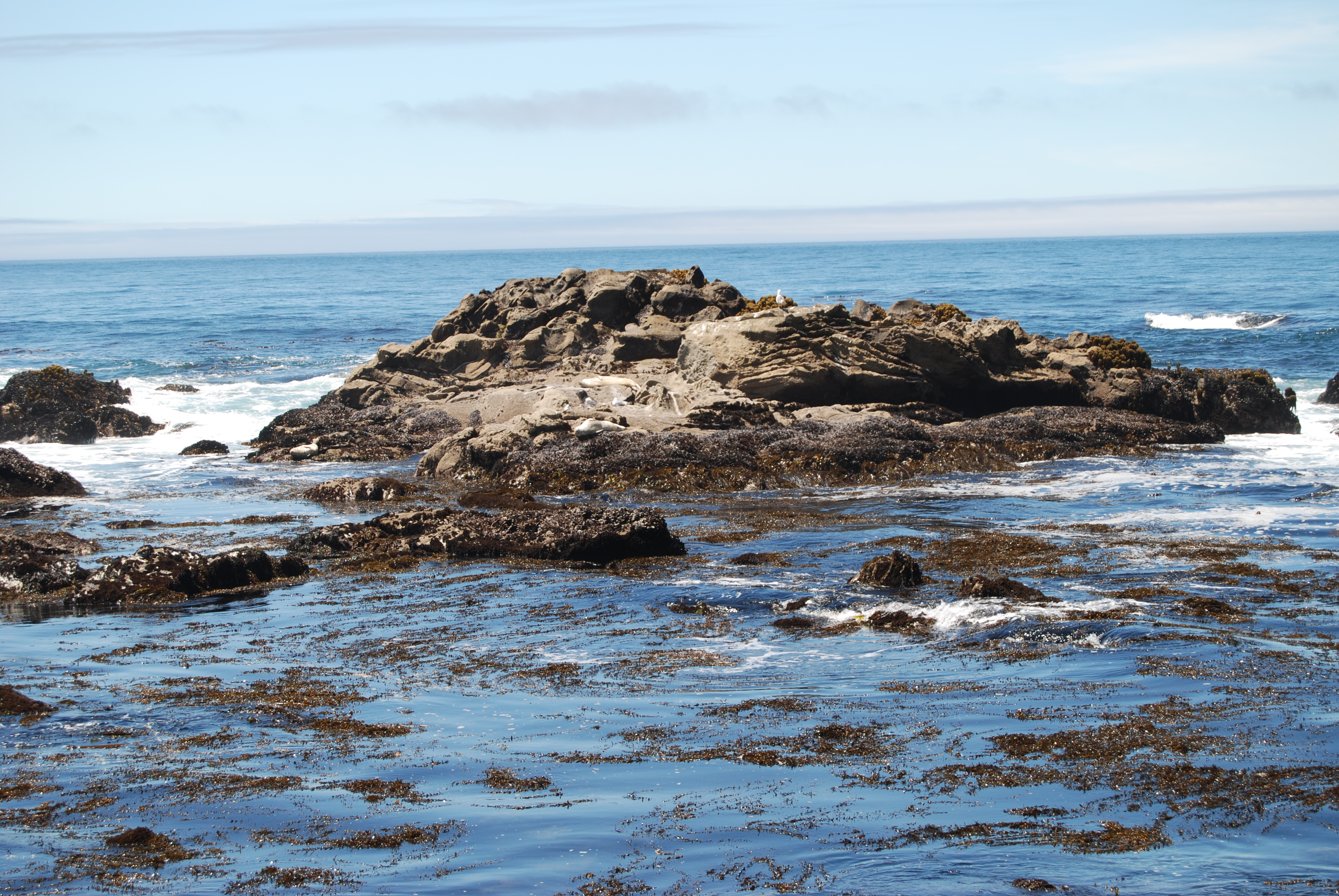 Tide Pools, with basking harbour seals at Salt Point State Park, CA